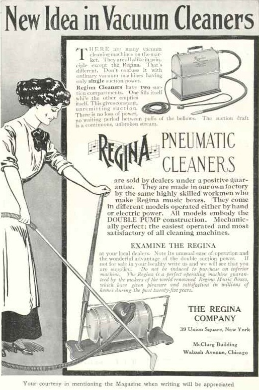 An advertisement for a pneumatic vacuum cleaner